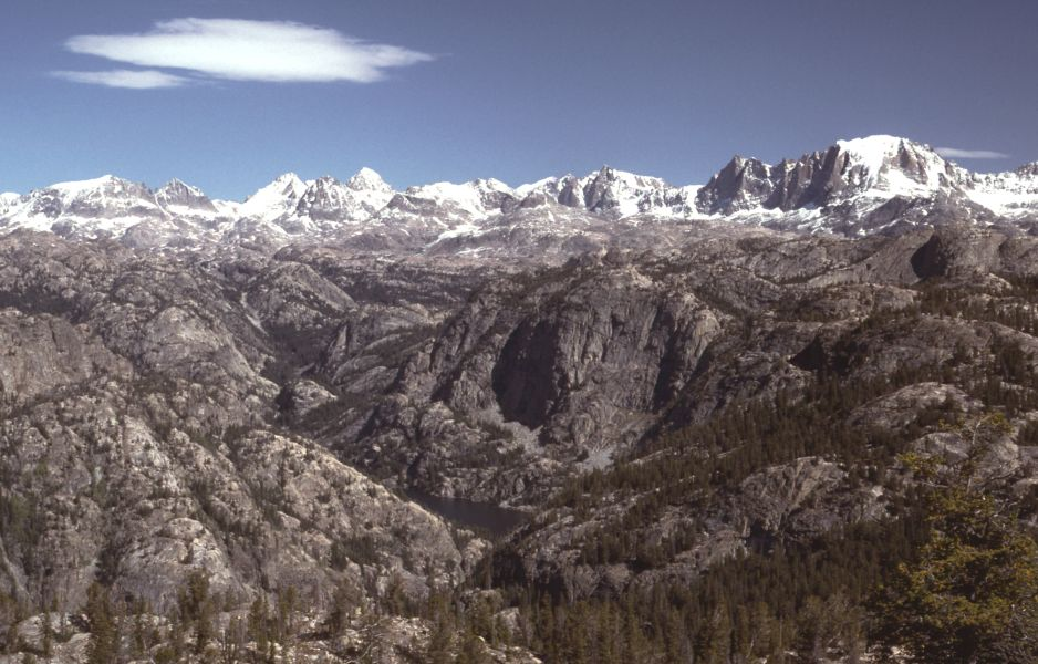 The Wind River Range, Wyoming, as viewed from Photographer's Point